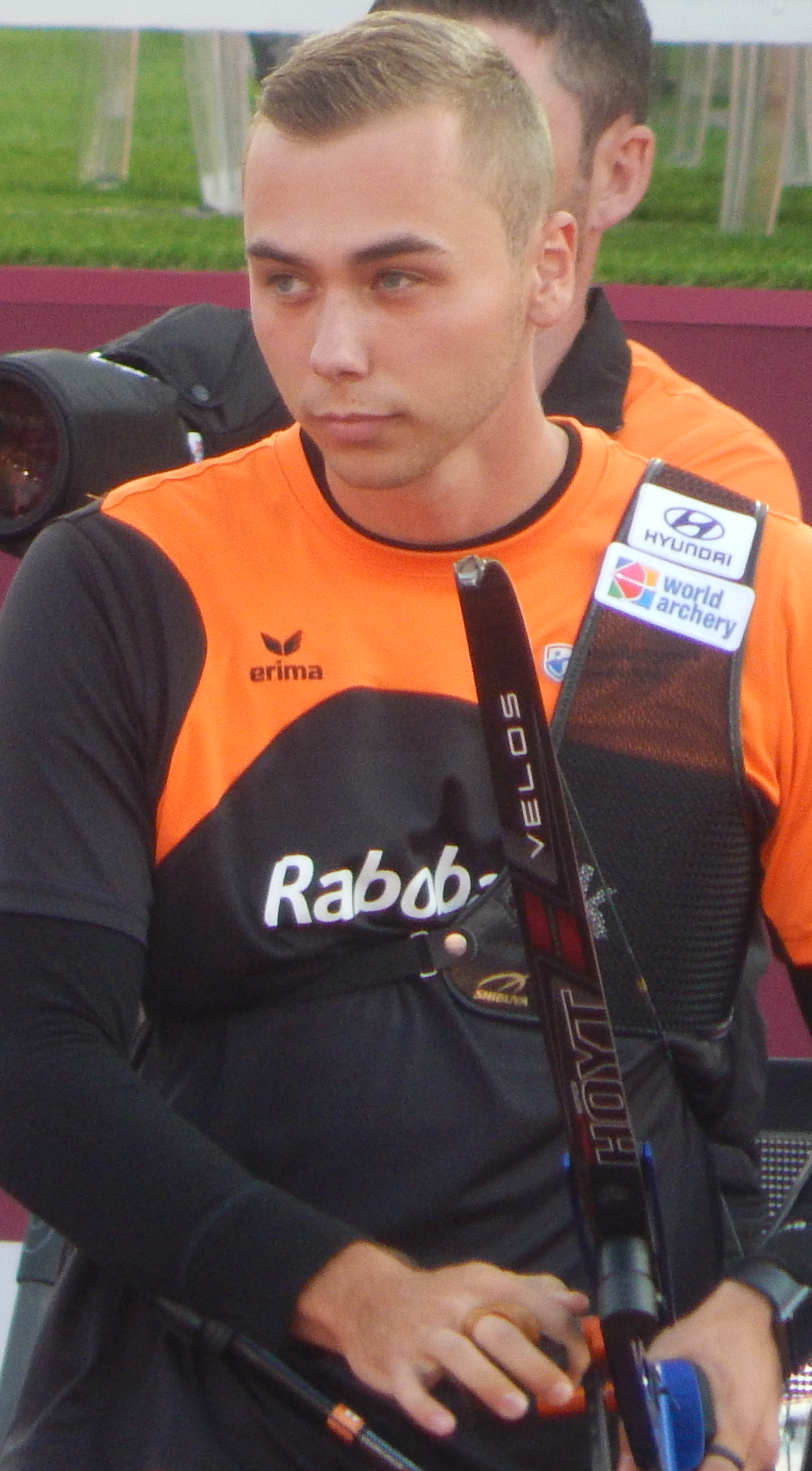 2019 Archery World Cup Final in Moscow. Men's Recurve.